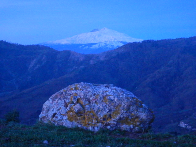 Mount Etna seen from the astronomic site of Pizzo Vento over Fondachelli Fantina, Sicily